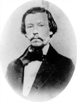 Lucius M. Walker, Confederate General, from